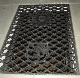 Muri - Loreto chapel - vault entrance